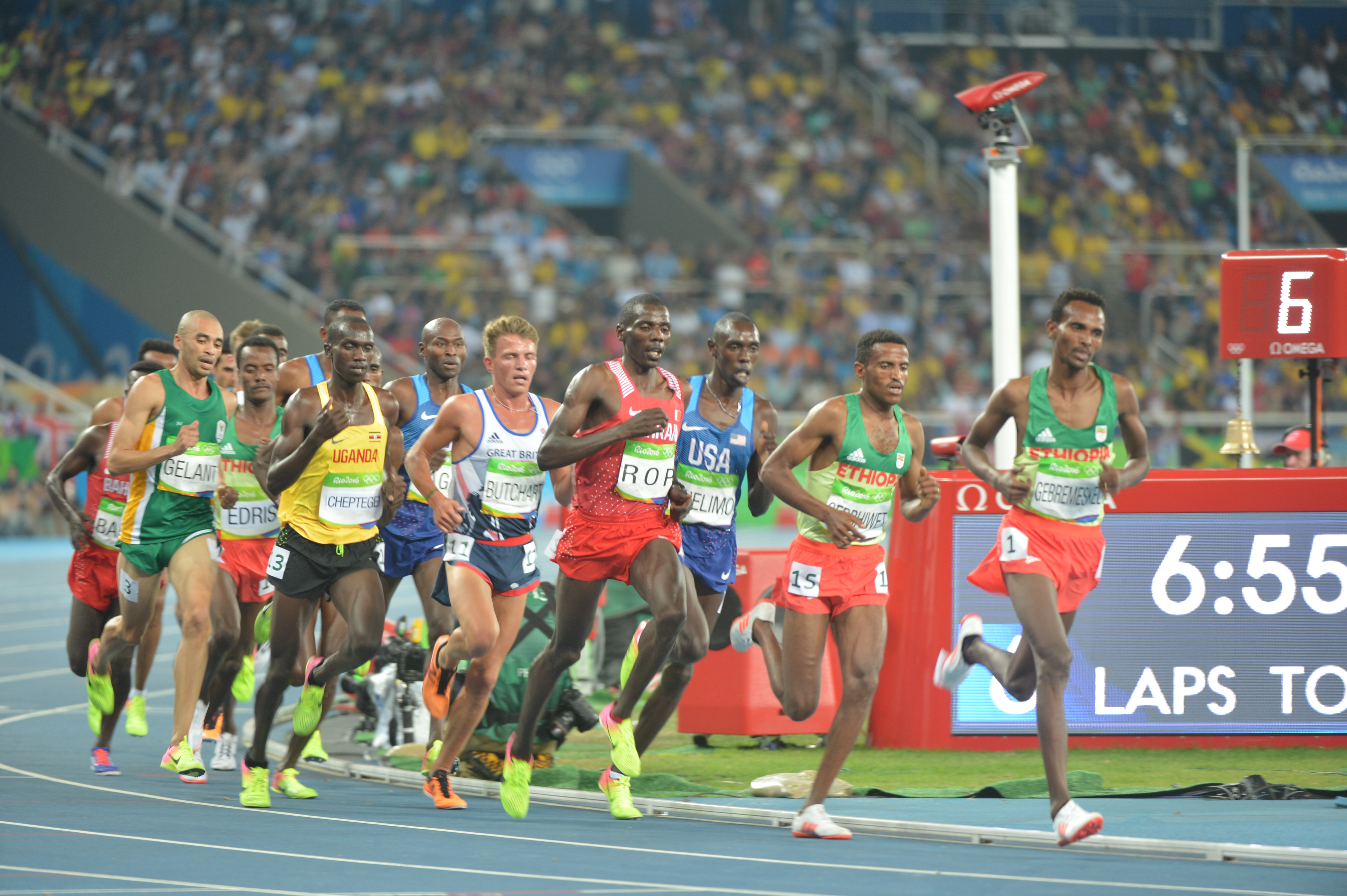 Spc. Paul Chelimo of the U.S. Army World Class Athlete Program finishes runner-up to Mo Farah of Great Britian to claim the silver medal in the men's 5,000-meter run with a personal-best time of 13 minutes, 3.90 seconds at the Rio Olympic Games in Rio de Janeiro. Farah won the gold in 13:03.30 and Hagos Gebrhiwet of Ethiopia took the bronze in 13:04.35. Chelimo was disqualified from the race but later reinstated and collected his silver medal at the awards ceremony, which was delayed to sort it out. U.S. Army photo by Tim Hipps, IMCOM Public Affairs #SoldierOlympians #ArmyOlympians #ArmyTeam #GoArmy #TeamUSA #RoadToRio #Olympics #ArmyStrong